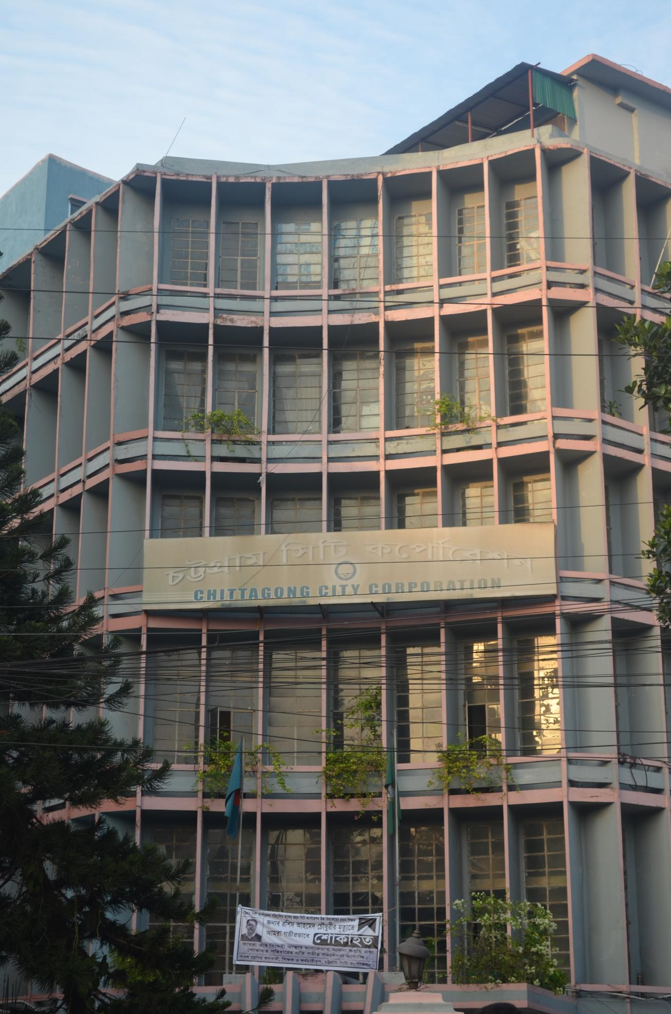 Chittagong city corporation building, chittagong